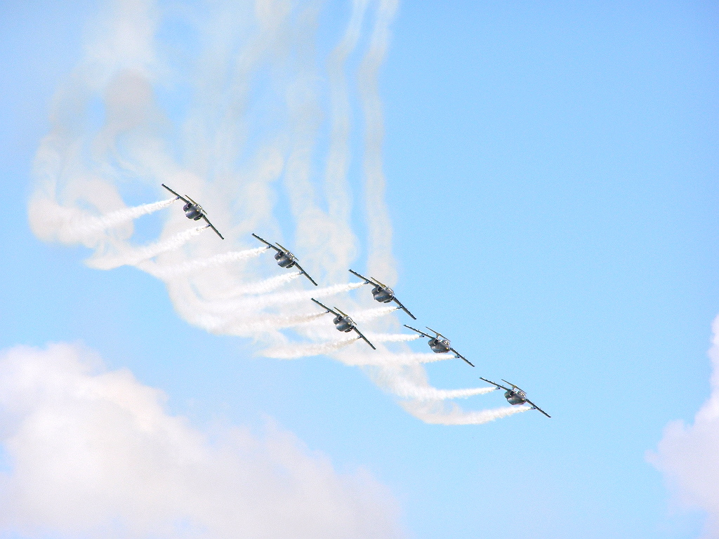 Team 60 performing at Kristianstad Airshow 2006.